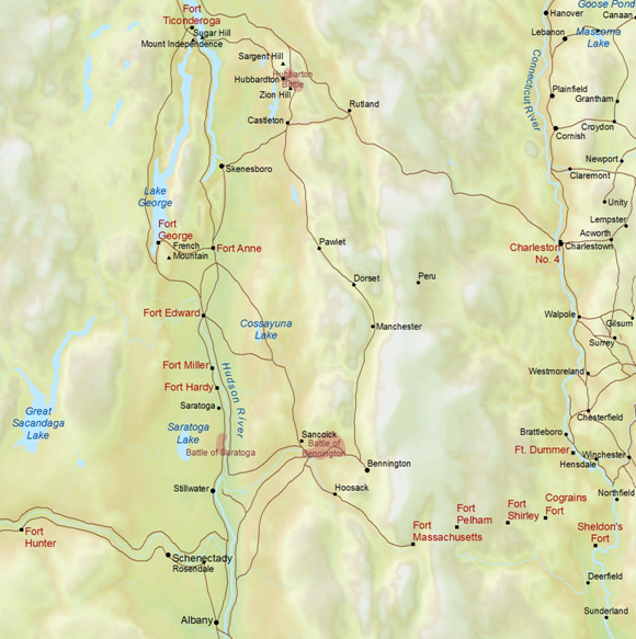 Shows the territory the American and British armies were active within from June 1777 through October 1777